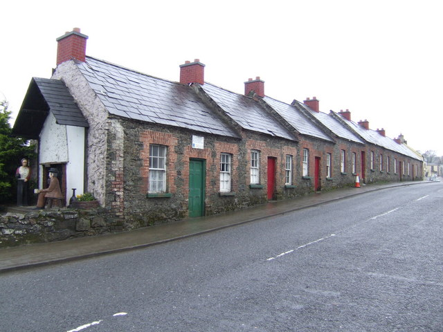 Rockcorry; mill-workers cottages Preserved buildings alongside the R188 on the north side of the town.